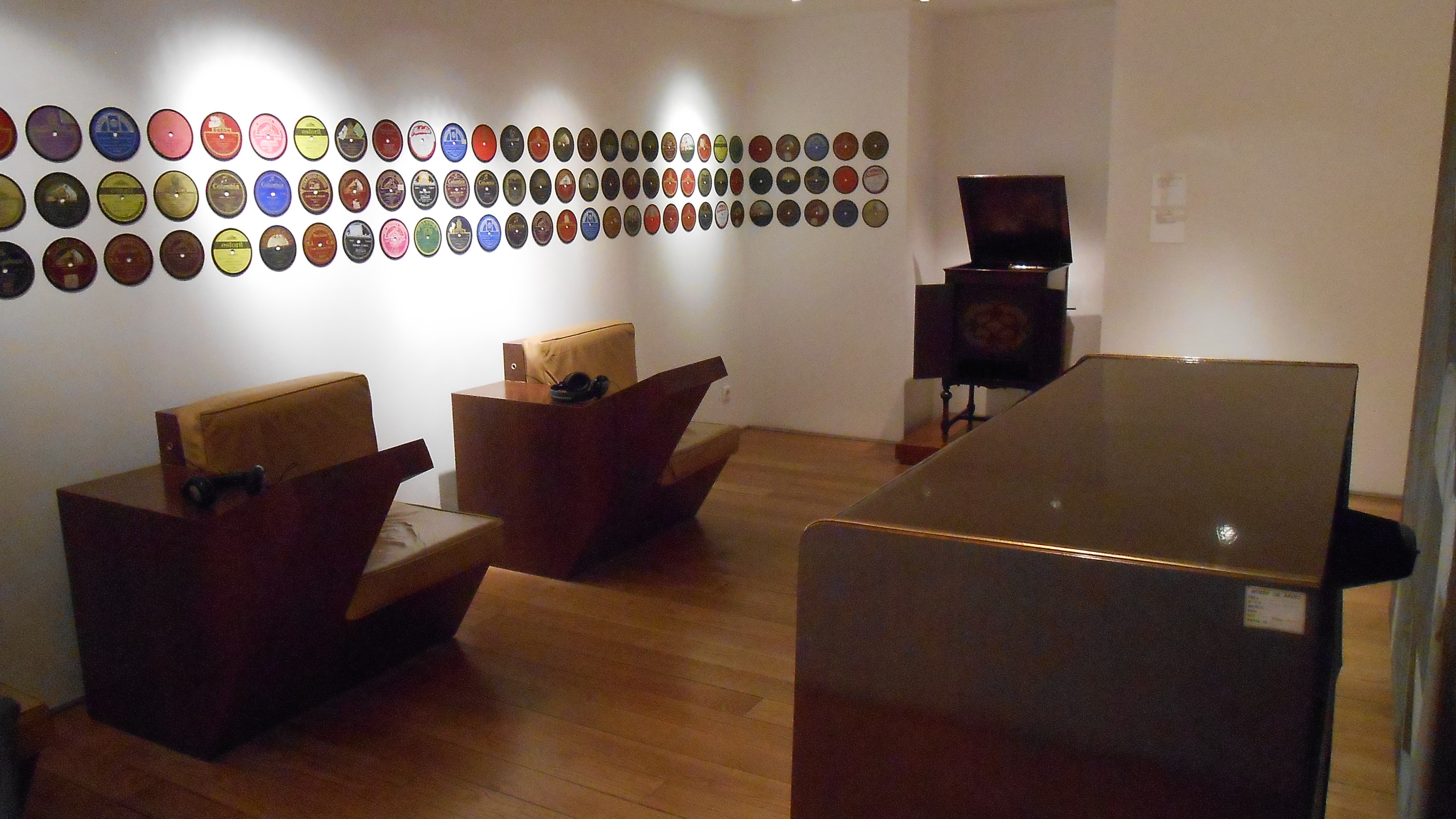 In the Fado museum in Lisbon (march 2014).